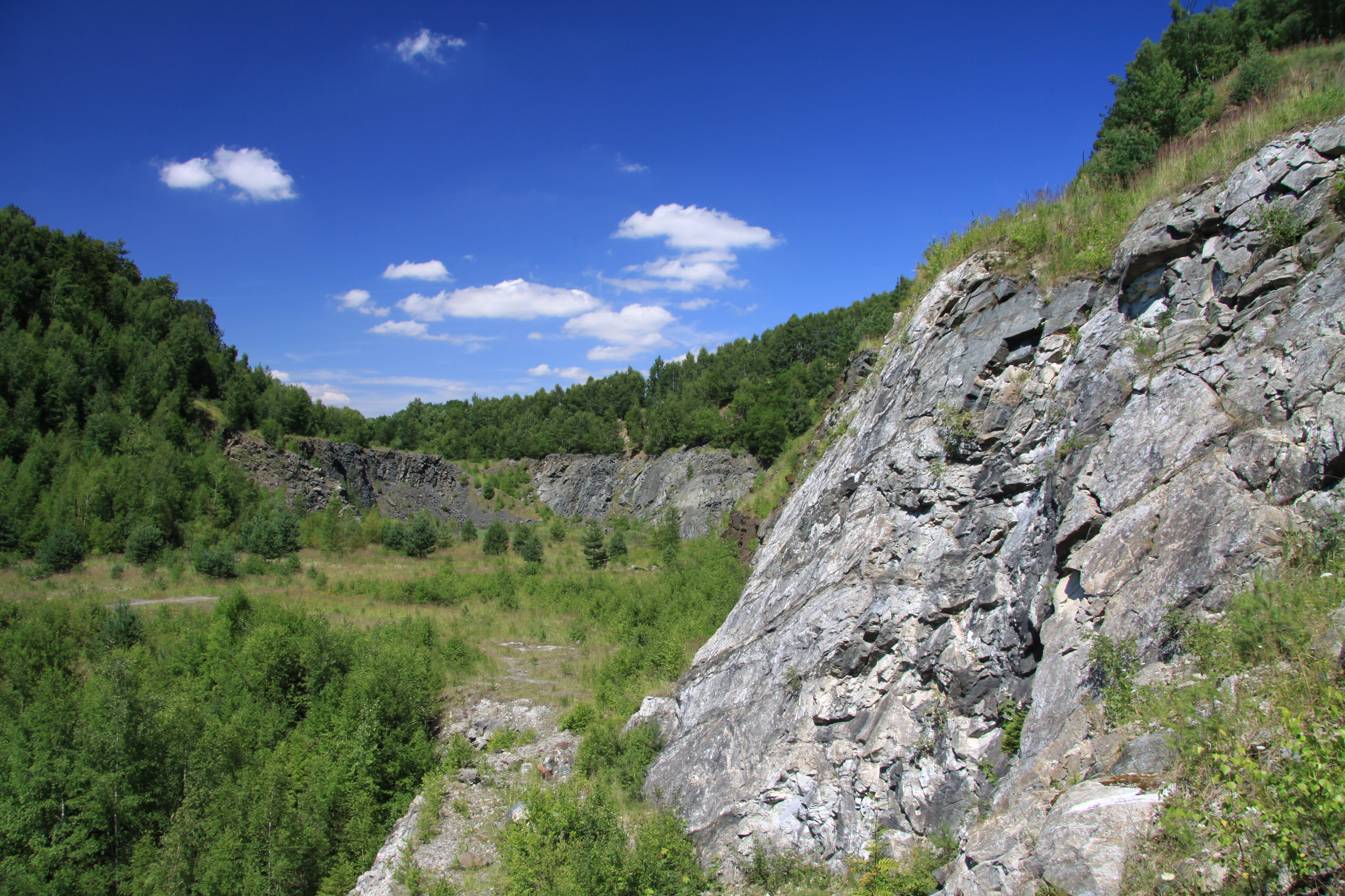 Nature reserve Pacova hora in Tábor District, Czech Republic - Google Maps - Google Earth